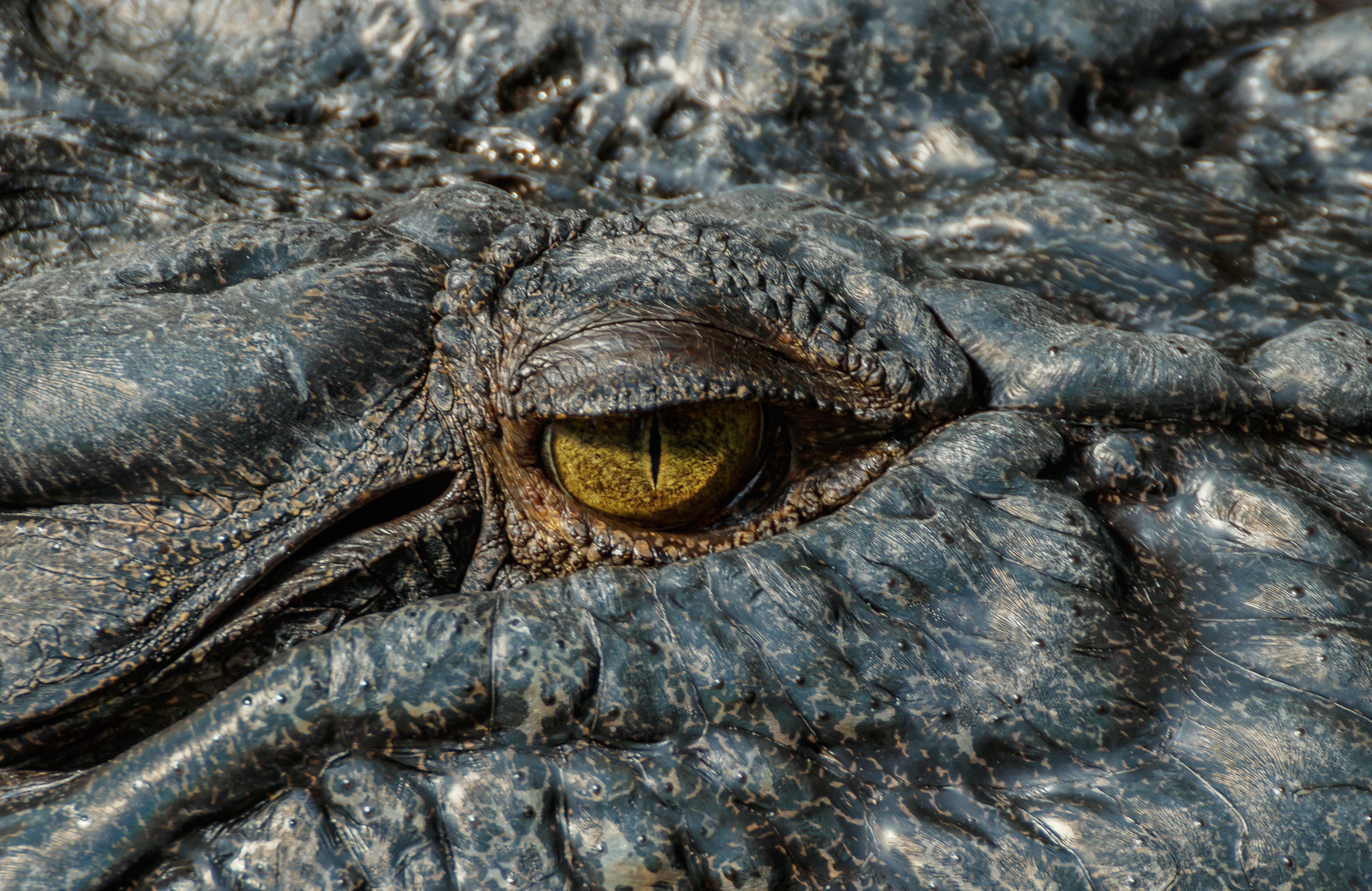 Crocodylus porosus Schneider, 1801, Saltwater crocodile, male, eye; Wilhelma, Stuttgart, Germany.